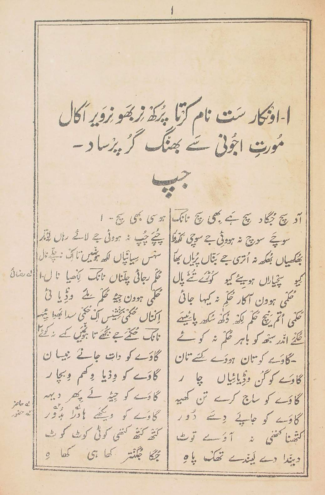 Opening page of Guru Granth Sahib in Shahmukhi Script